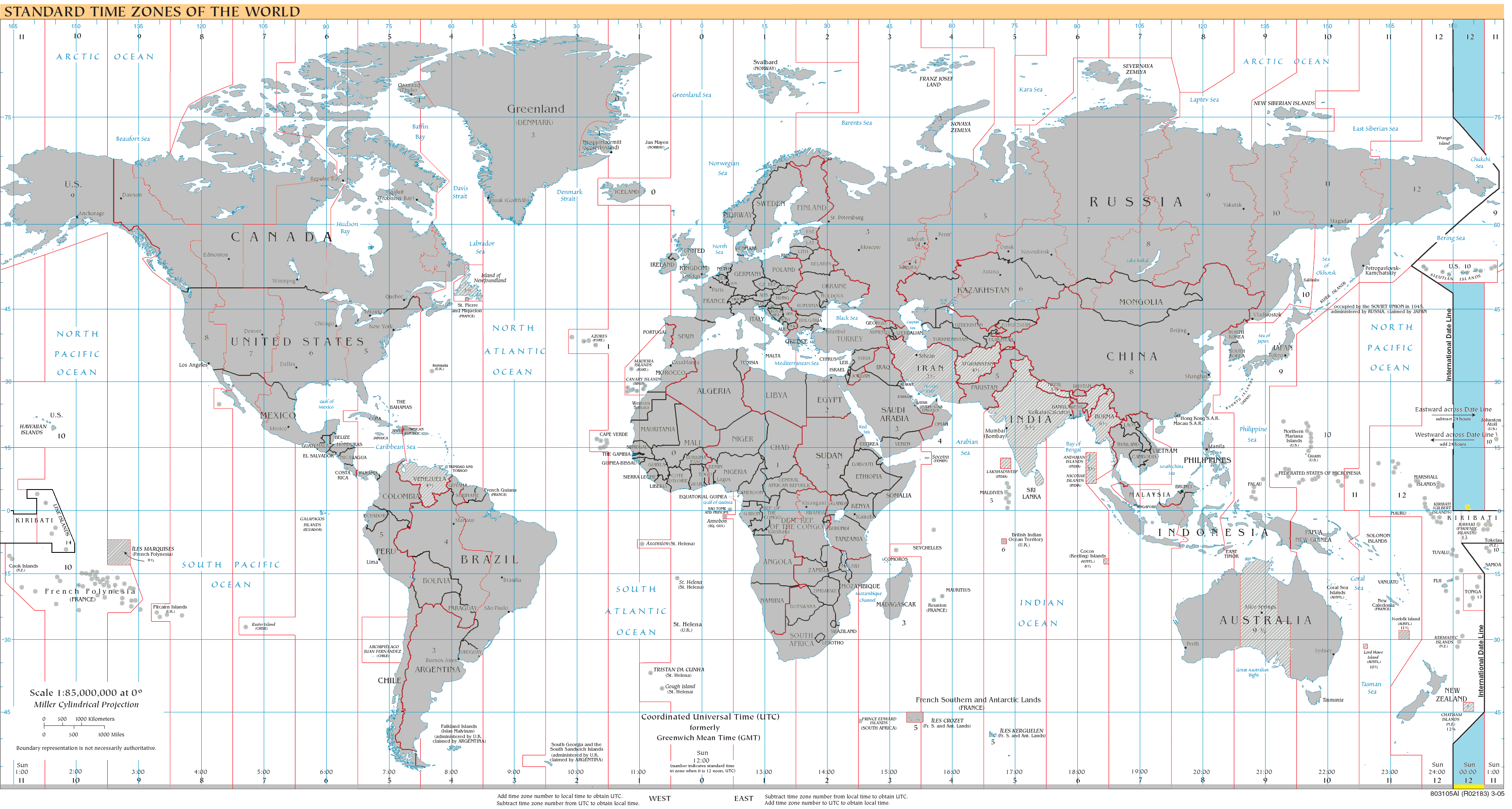 World map of time zones as of 2008, on the Miller Cylindrical Projection and with highlighted UTC-12 zone. Dark Blue - UTC-12 during Northern Winter / Southern Summer Orange - UTC-12 during Northern Summer / Southern Winter Yellow - UTC-12 all year round Light Blue - UTC-12 sea areas